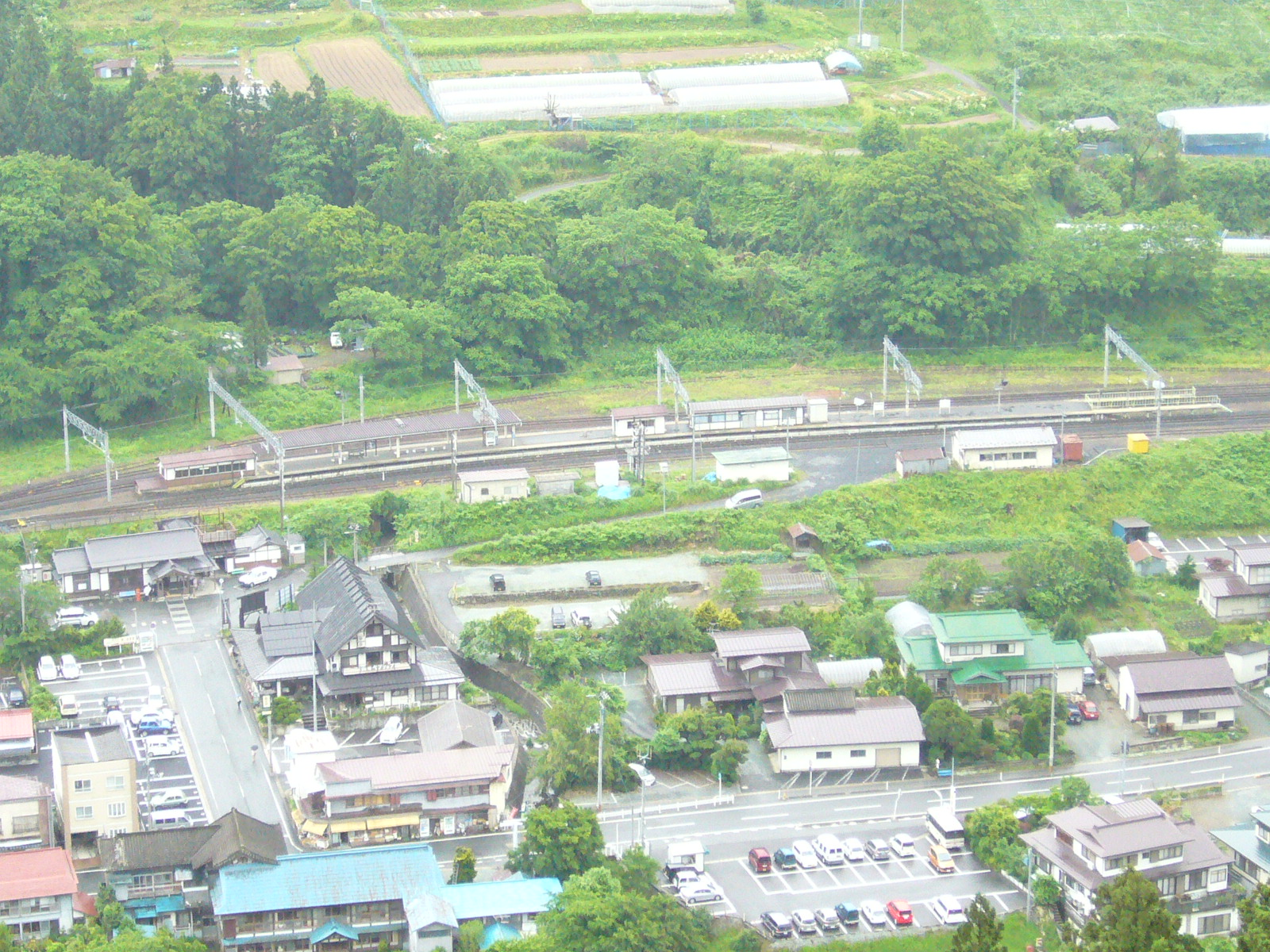 Yamadera Station, Senzan Line, Yamagata City, Japan